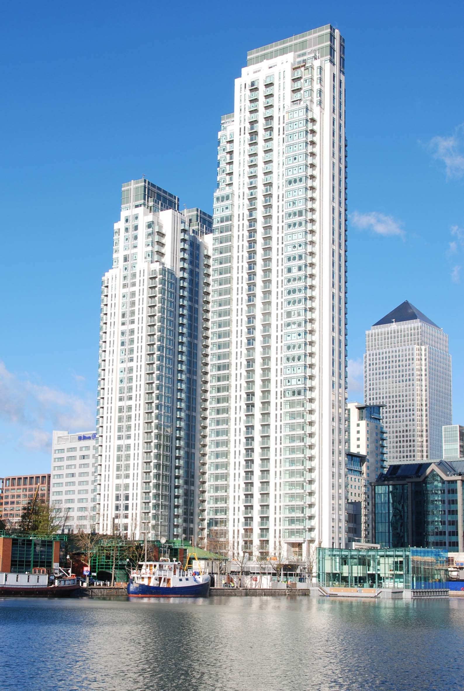 Pan Peninsula, Canary Wharf, London, England